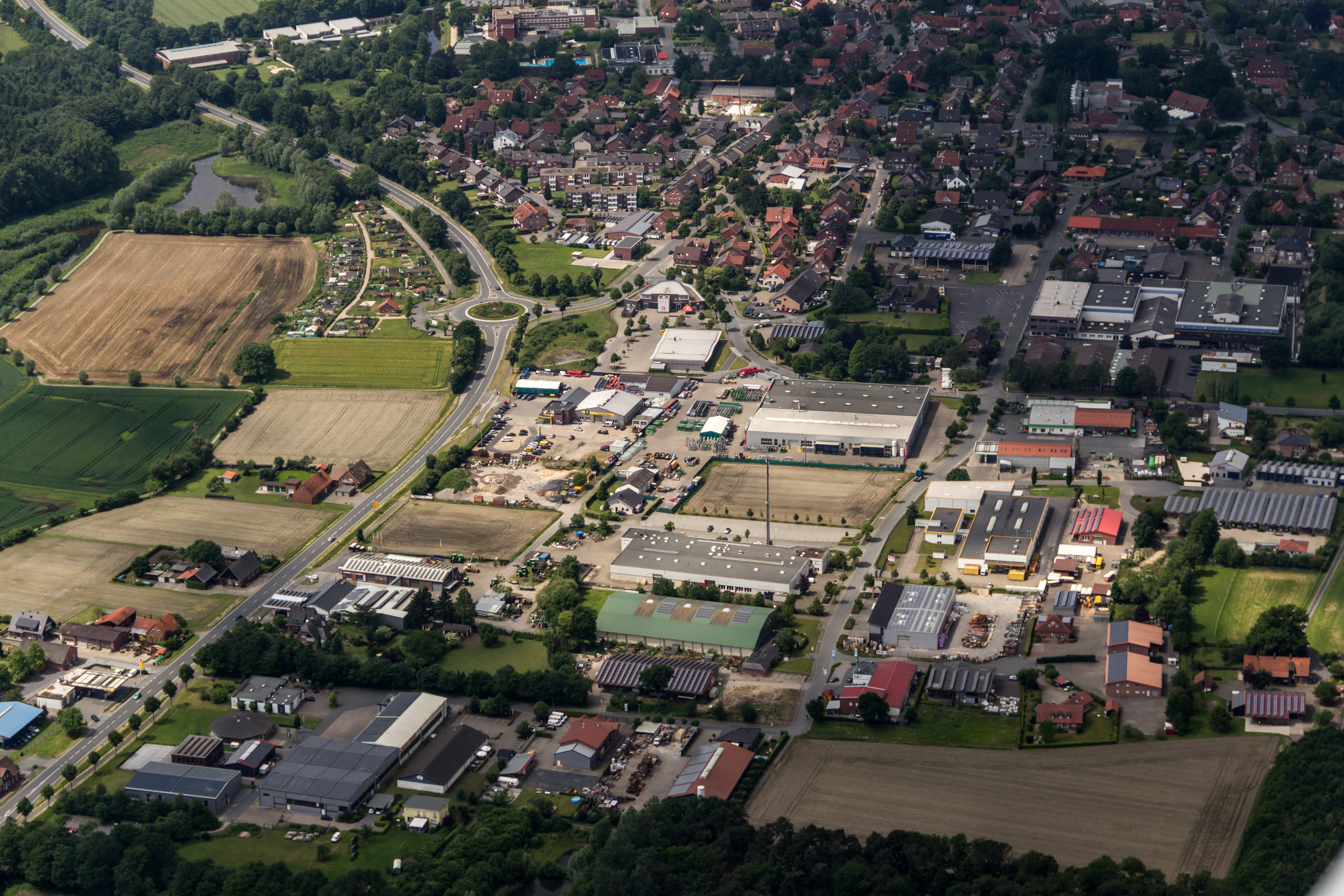 Industrial area, Ostbevern, North Rhine-Westphalia, Germany